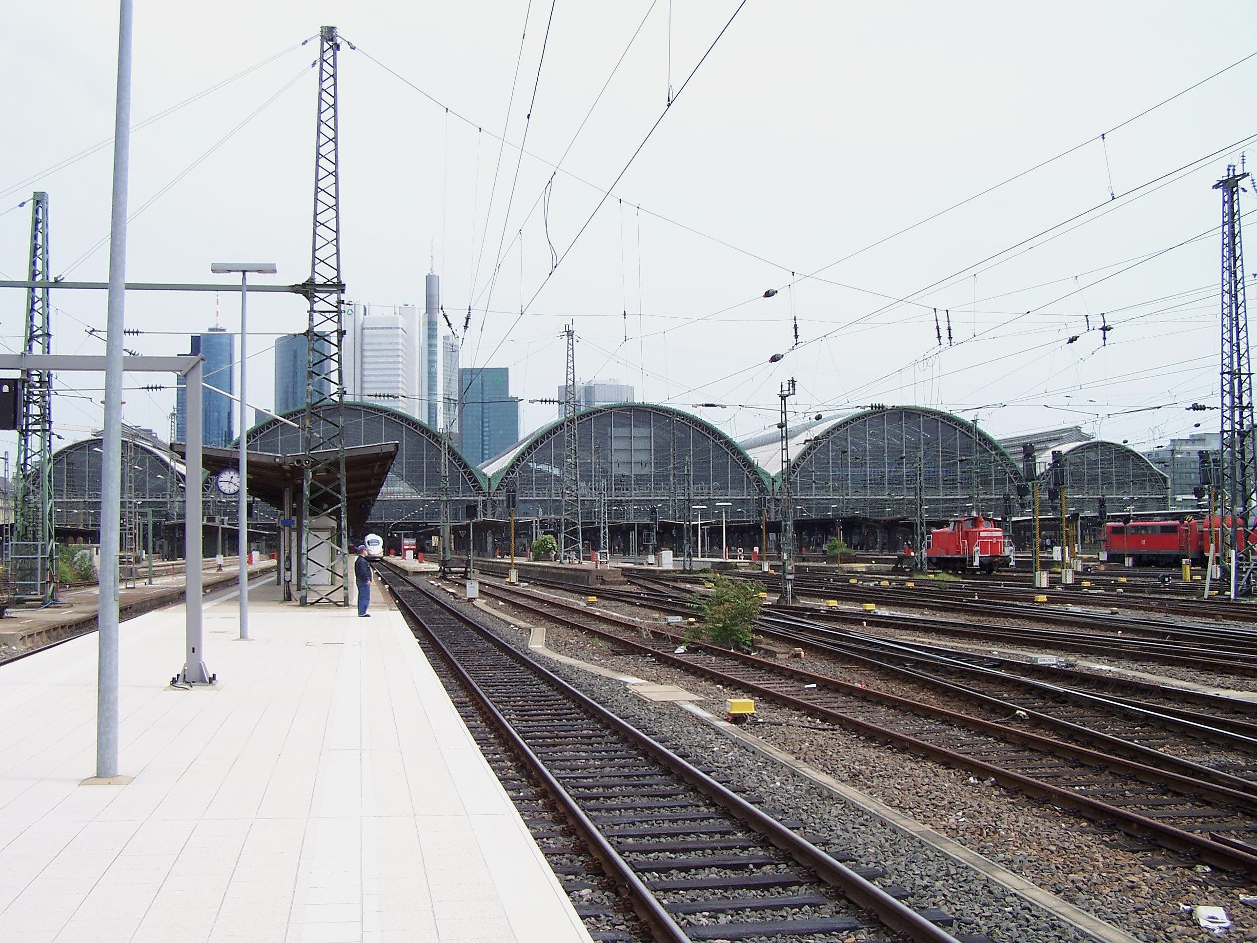 Plattform halls of the Frankfurt Central Station in Frankfurt am Main-Bahnhofsviertel seen from the tracks side